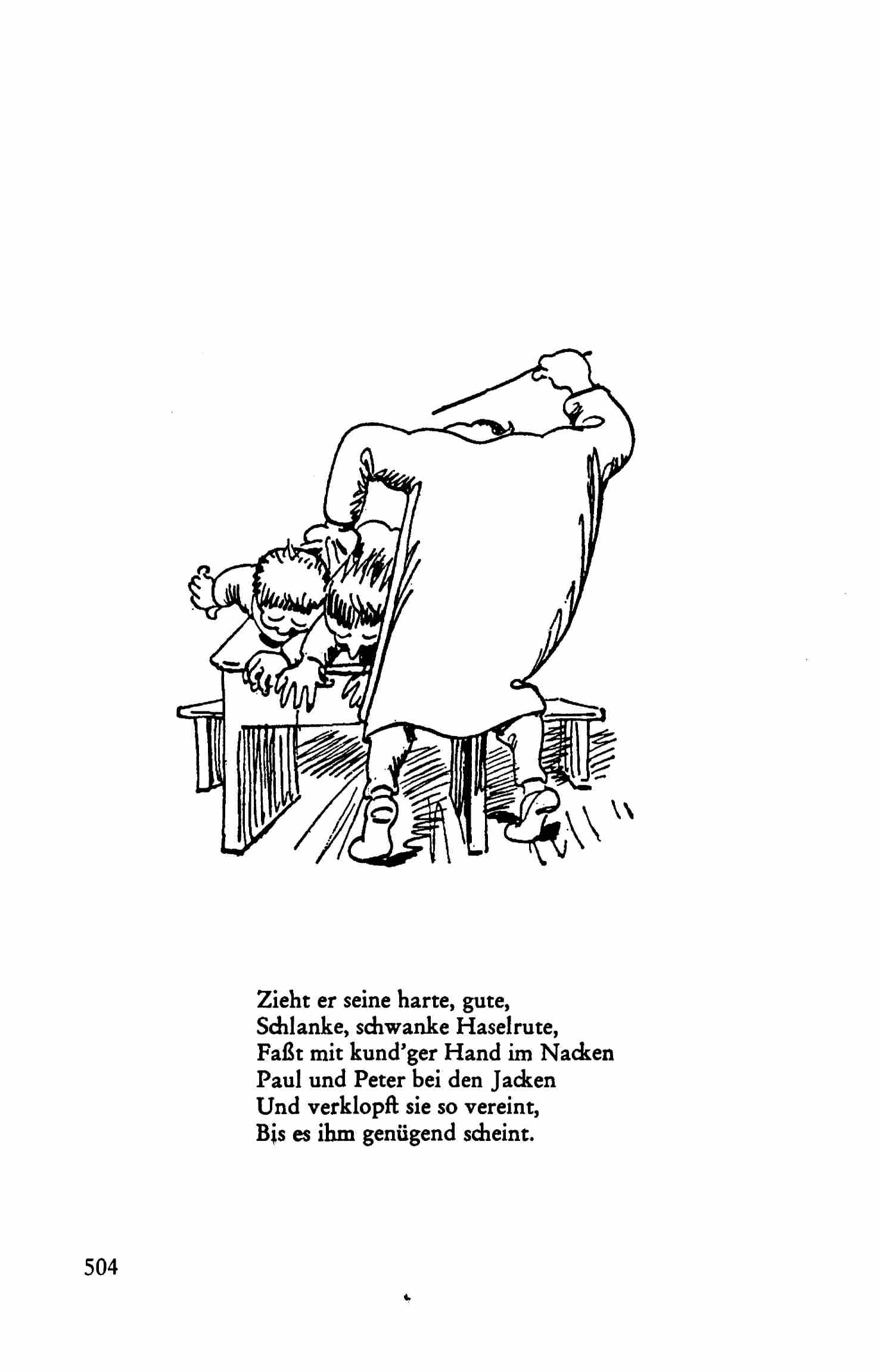 This is a scan of the historical document